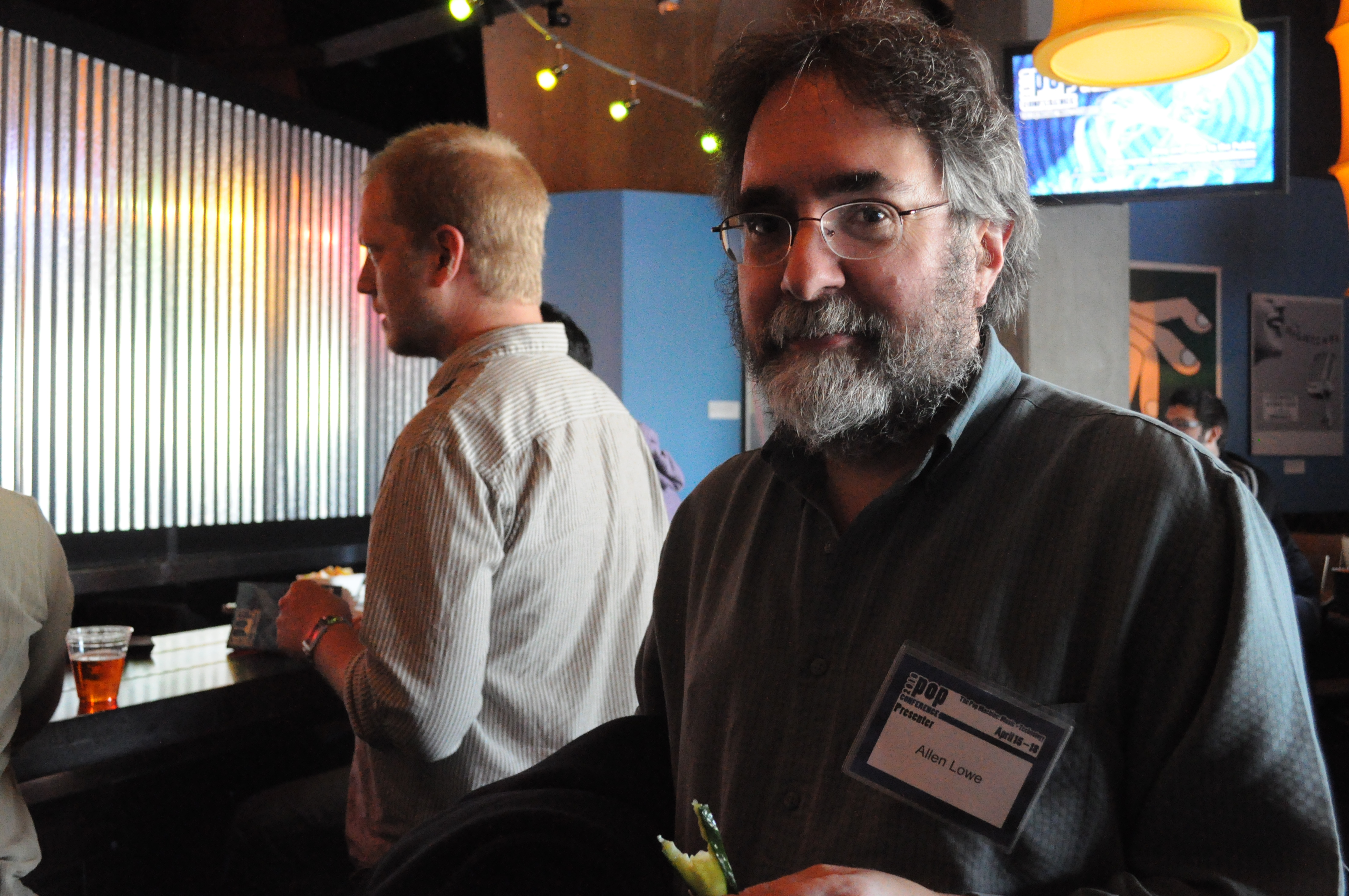 Jazz saxophonist, guitarist, mastering engineer and music historian Allen Lowe (author of American Pop From Minstrel to Mojo) at the opening reception of the 2010 Pop Conference, EMPSFM, Seattle, Washington.